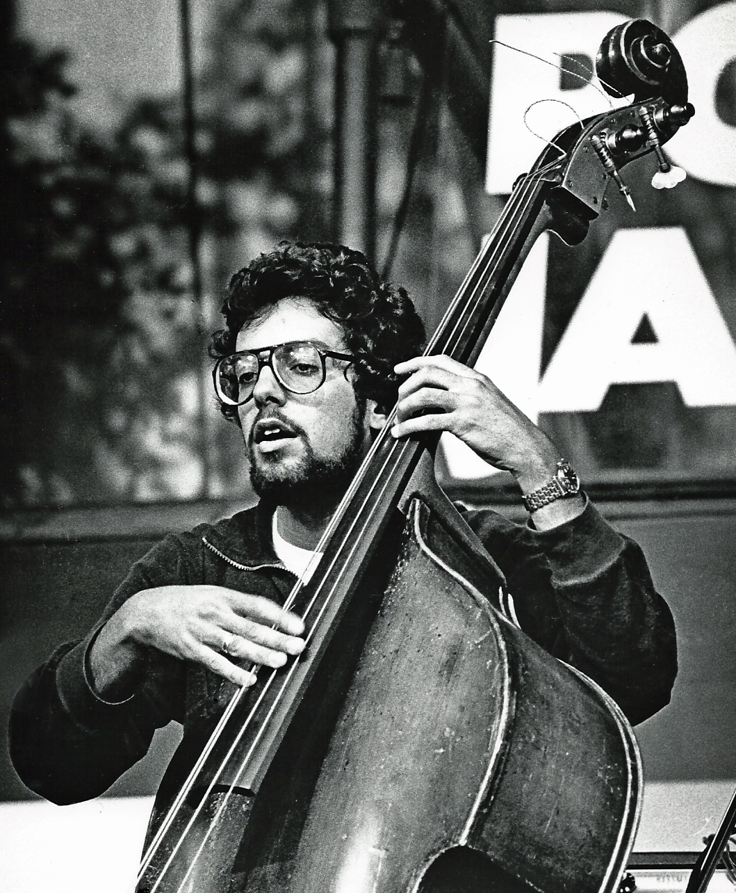 Bass player Larry Klein, Freddie Hubbard Quintet, performing at the Pori Jazz Festival in Finland, July 1978.